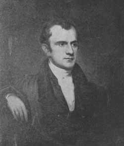 John G. Palfrey I, Founder of Havard Divinity School